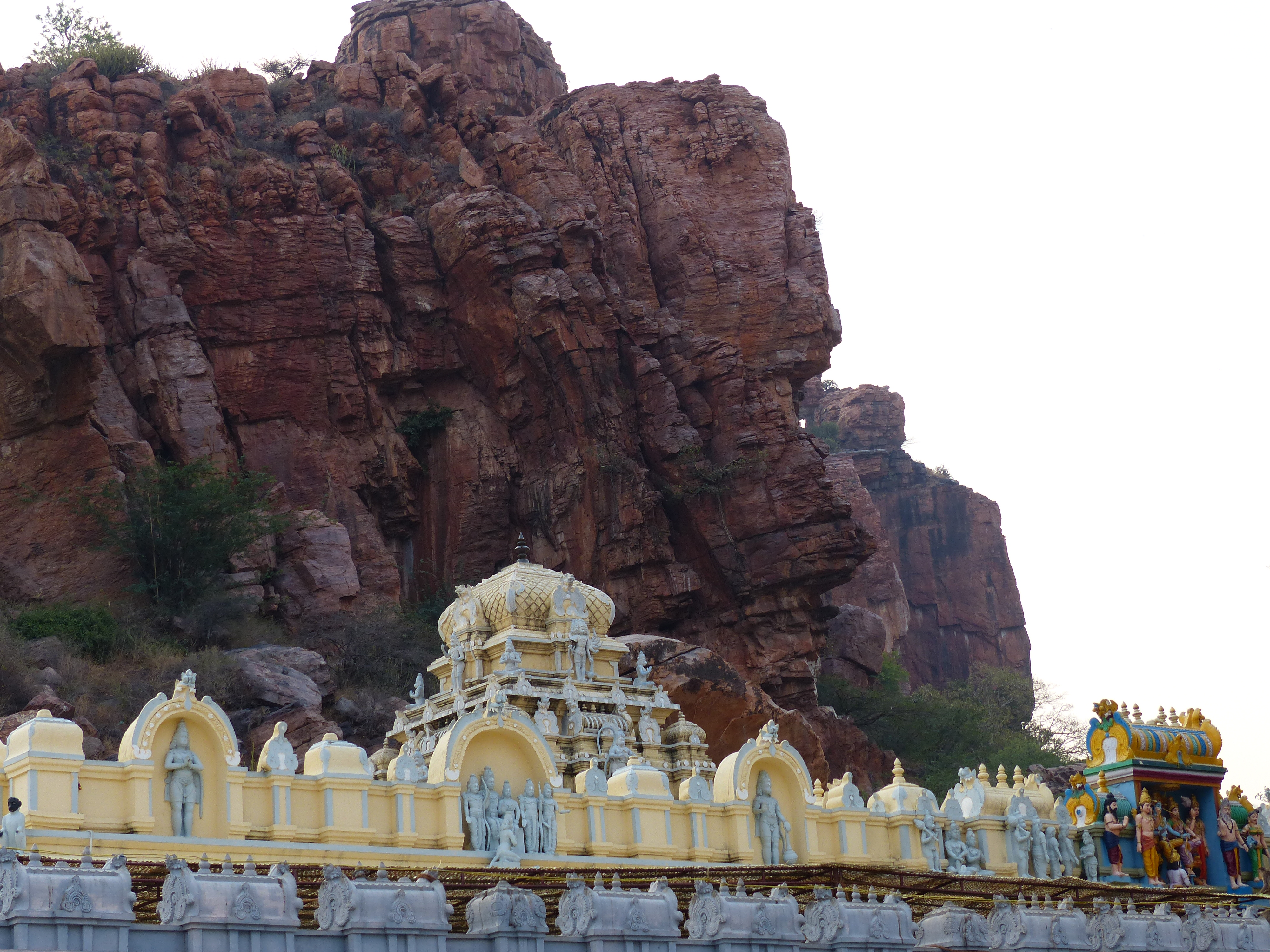 Main temple of the Lord Hanuman on the banks of Papagni River